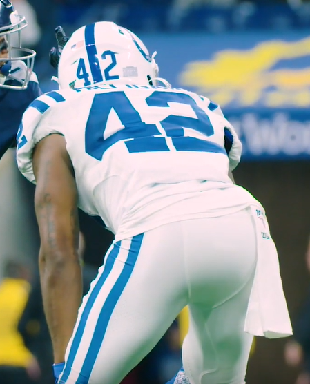 Rolan Milligan 2019. Image from video Kalif Raymond's 4th-Quarter TD Seals Win | Slow-Mo Monday, ~ 00:00.